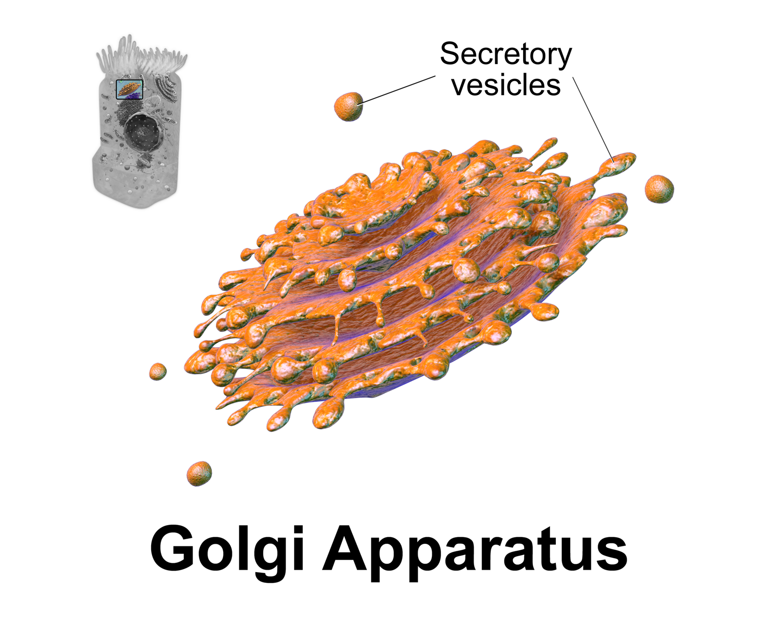 Golgi Apparatus. See a full animation of this medical topic.